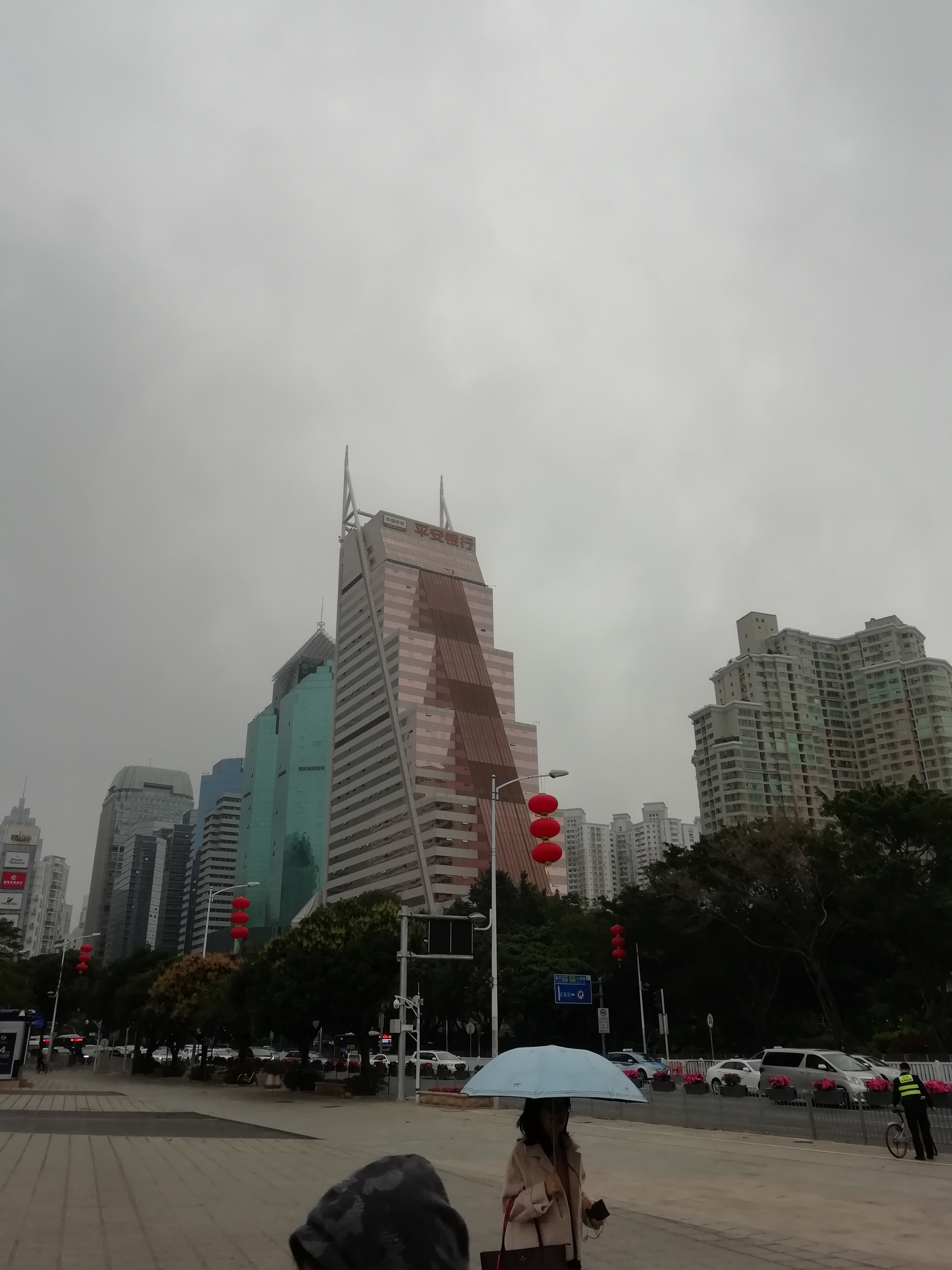 Headquarters of Pingan Bank. It formerly called "Shenzhen Devlopment Bank Building" and I looked this in the book in my childhood. 中文（中国大陆）: 平安银行总部大厦，原名深圳发展银行大厦